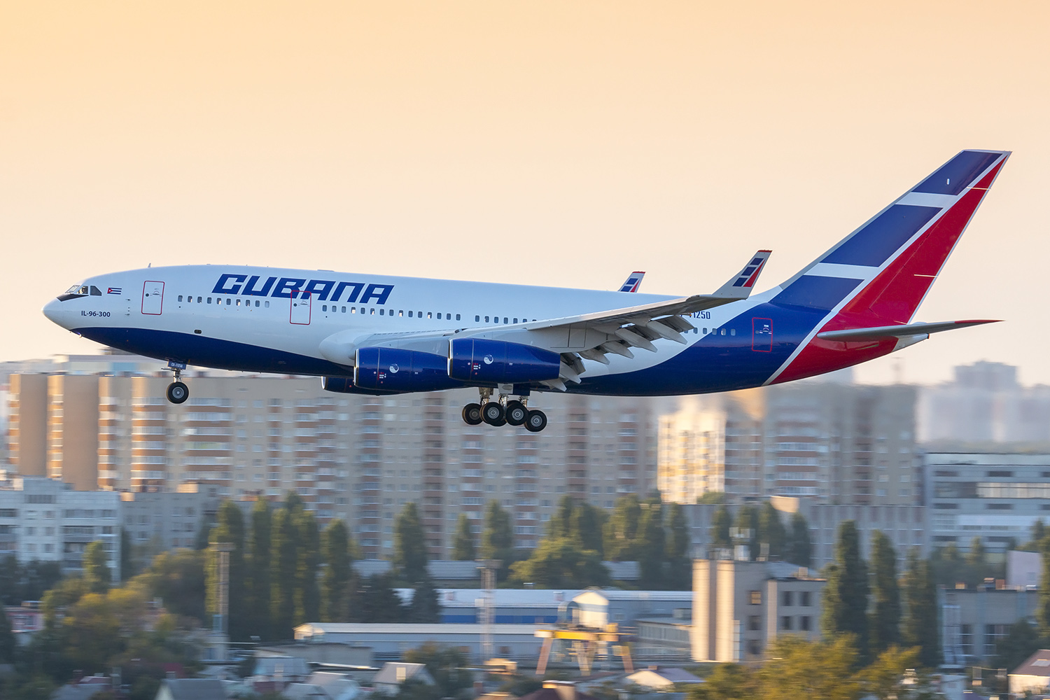 Ilyushin IL-96-300 Cubana de Aviacion CU-T1250